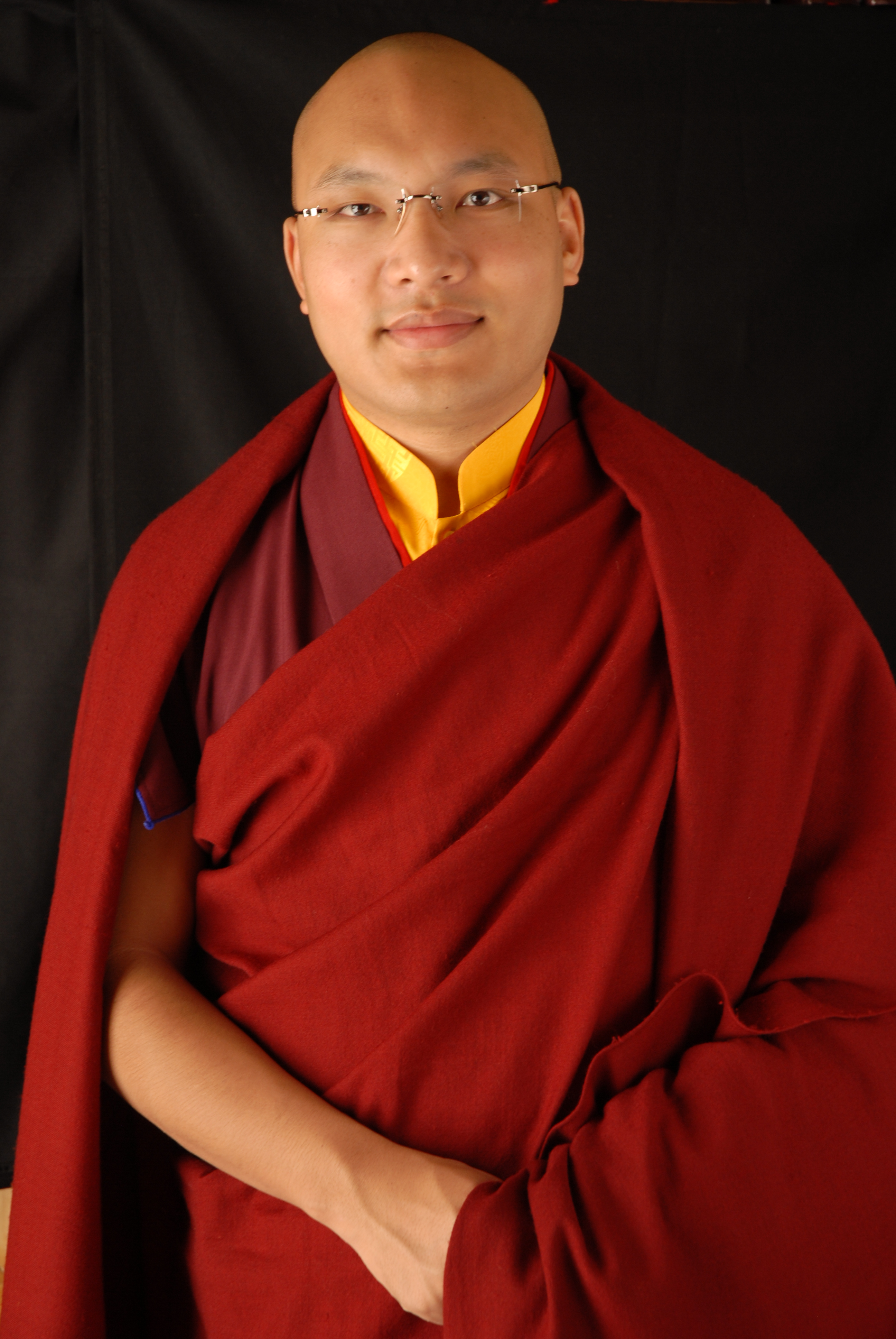 A recent picture of Karmapa at Gyuto Monastery, taken on Nov 11th.